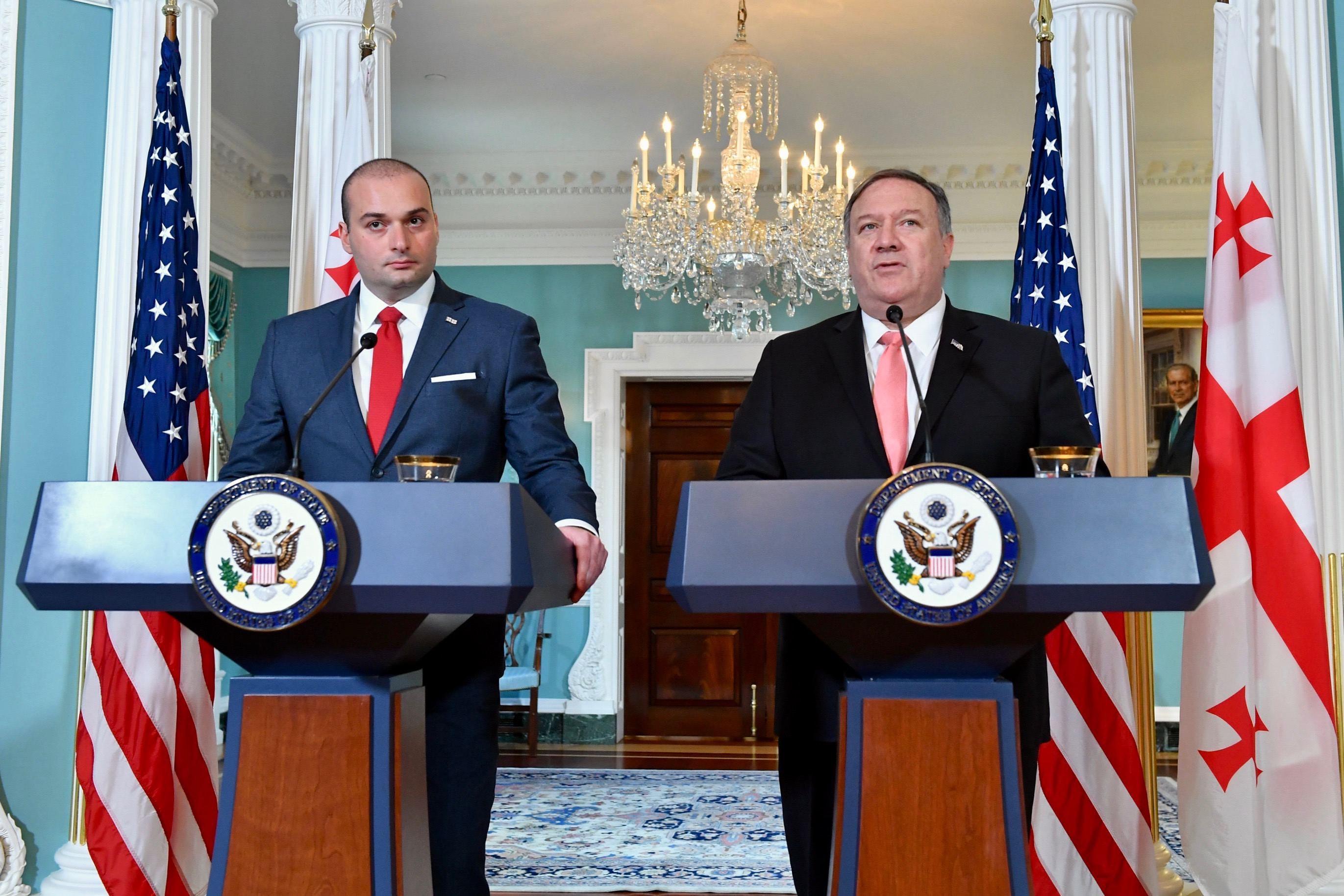 U.S. Secretary of State Michael R. Pompeo and Georgian Prime Minister Mamuka Bakhtadze deliver statements to the press, at the Department of State in Washington, D.C., on June 11, 2019. [State Department photo by Michael Gross/ Public Domain]